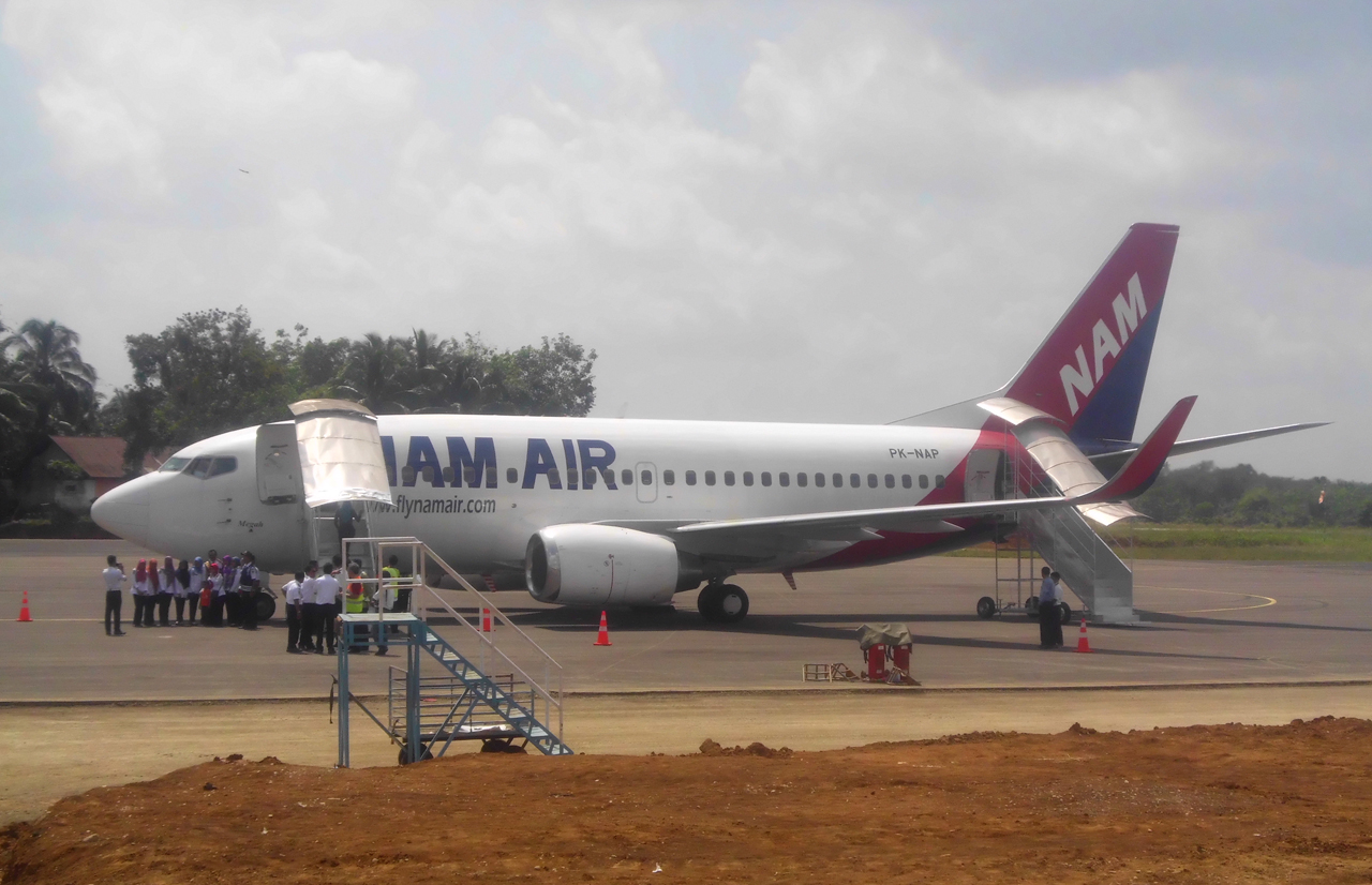 NAM Air 737-500 in Lubuk Linggau Inaugural Flight